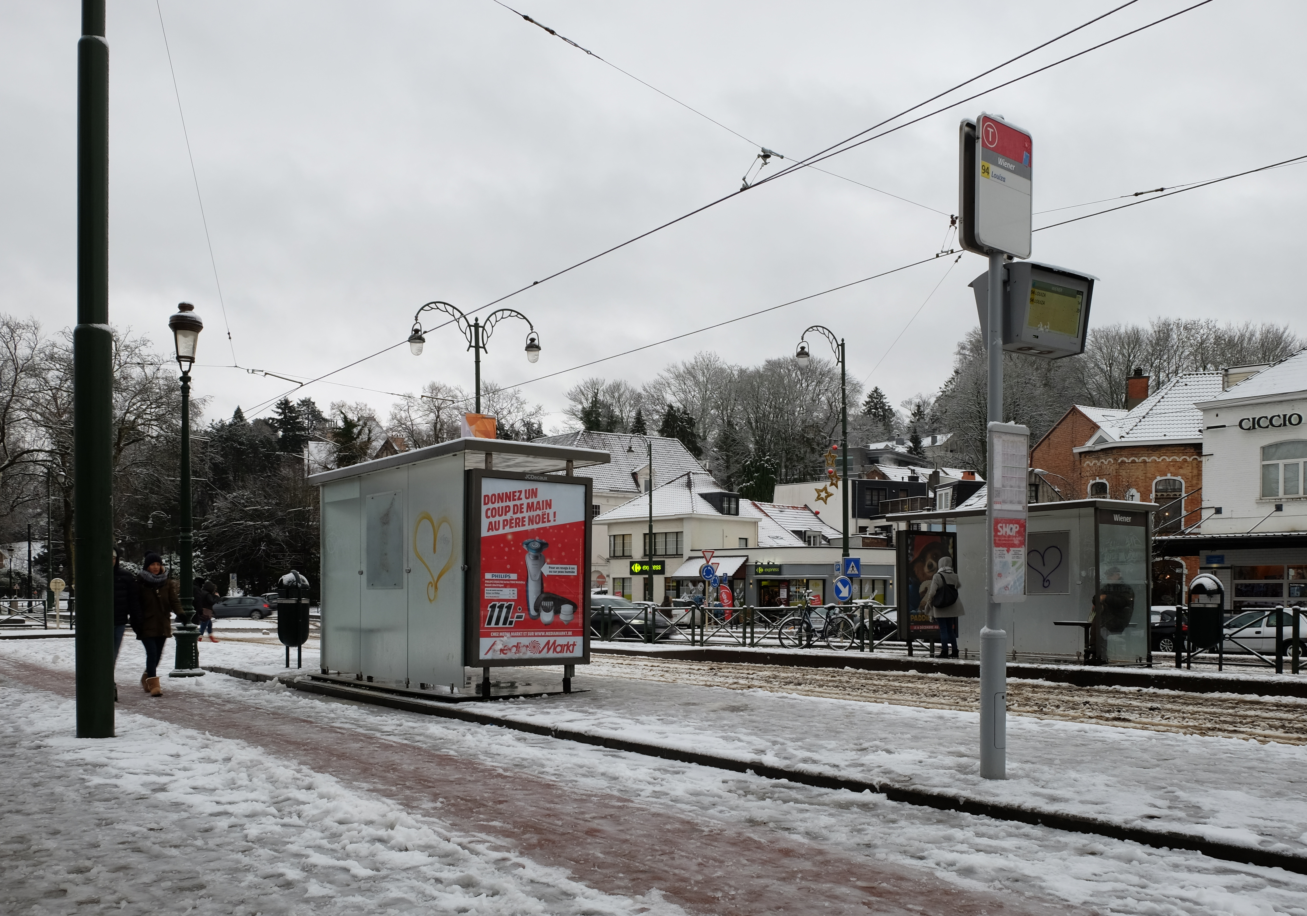 Wiener STIB tram stop on a snowy day in December (Watermael-Boitsfort, Belgium)